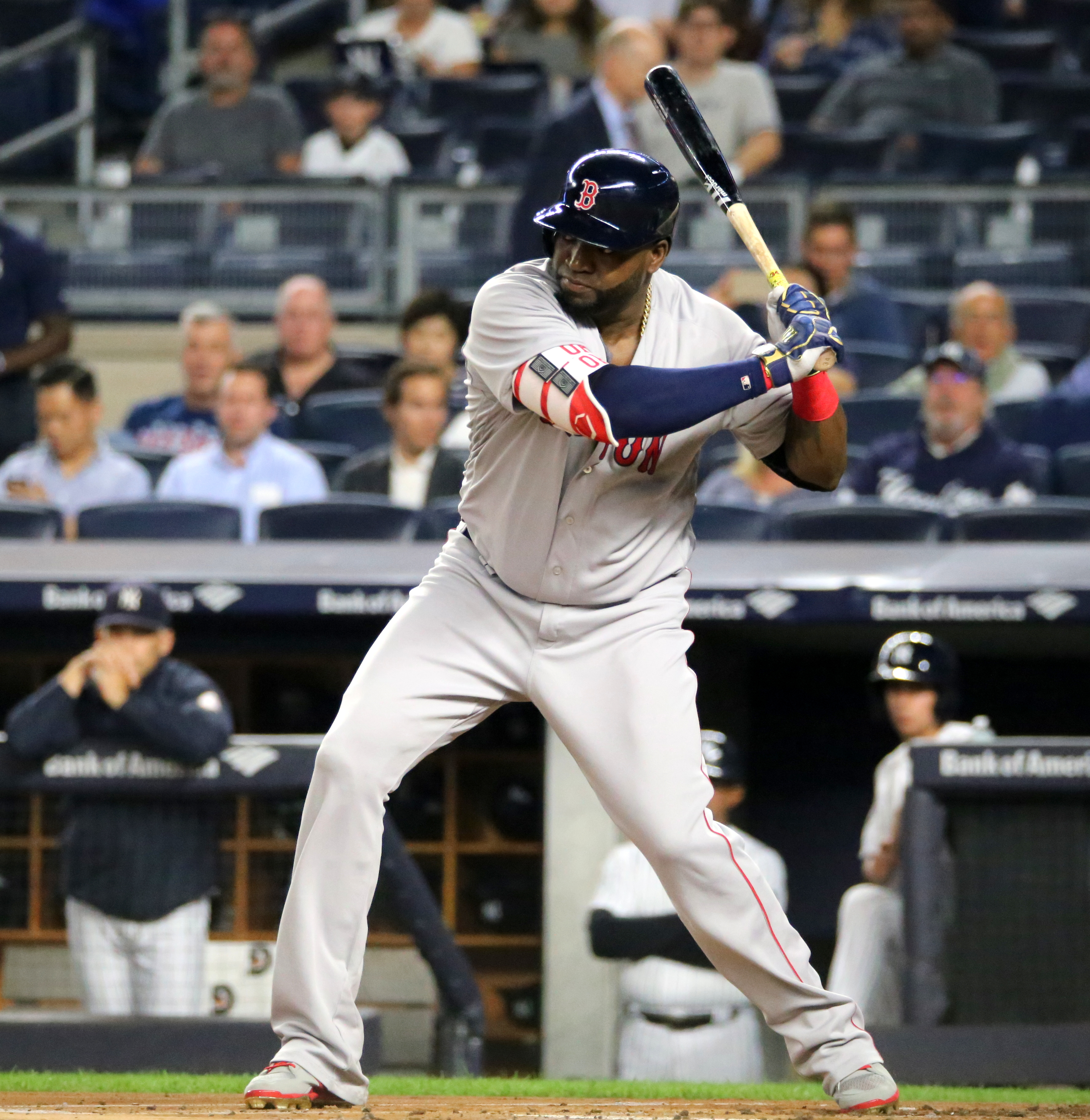 Boston Red Sox DH David Ortiz batting in the first inning of a game against the New York Yankees at Yankee Stadium in the Bronx, New York, NY on September 27, 2016